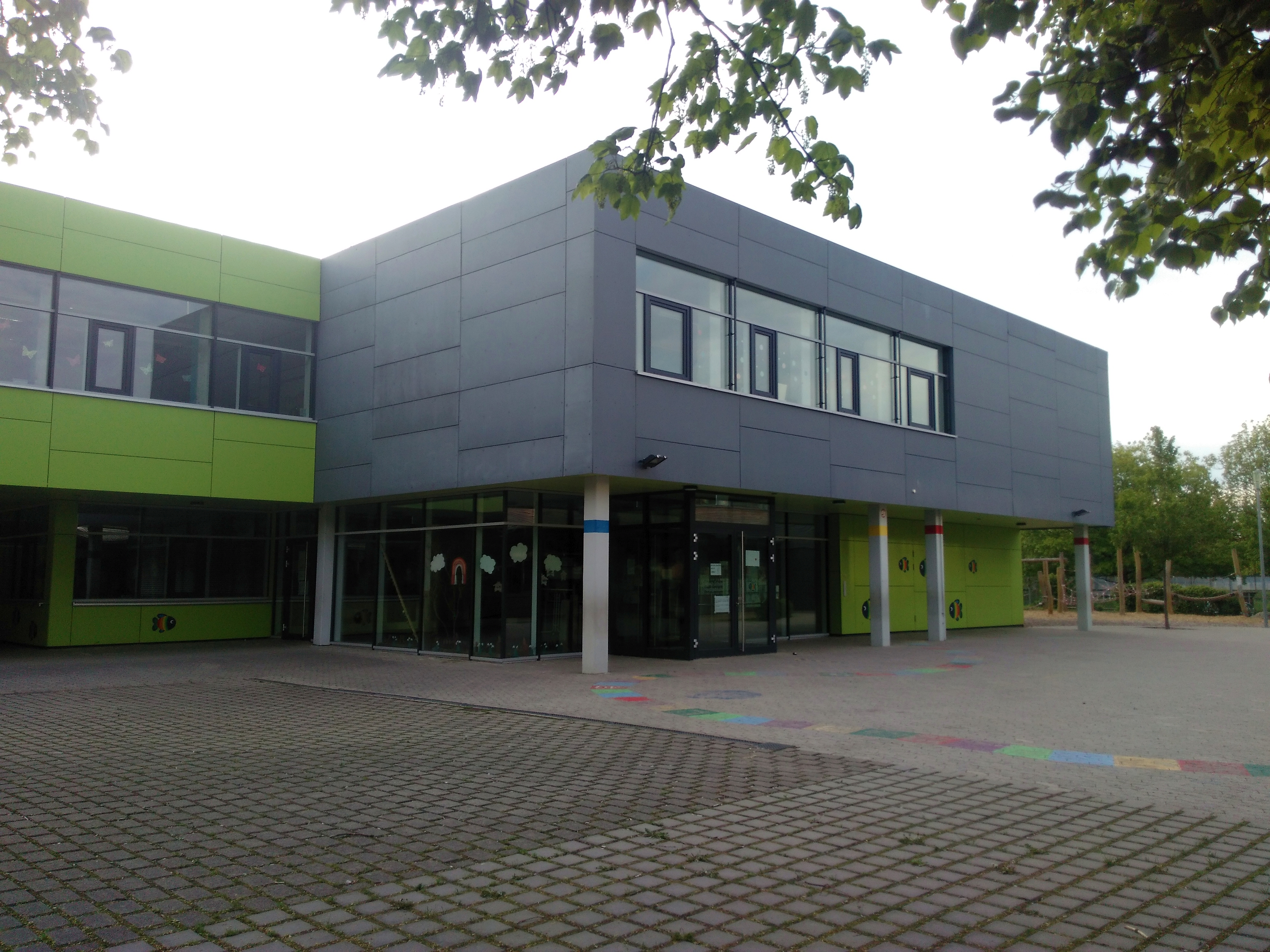 Ablachschule, Elementary school in Mengen, Germany